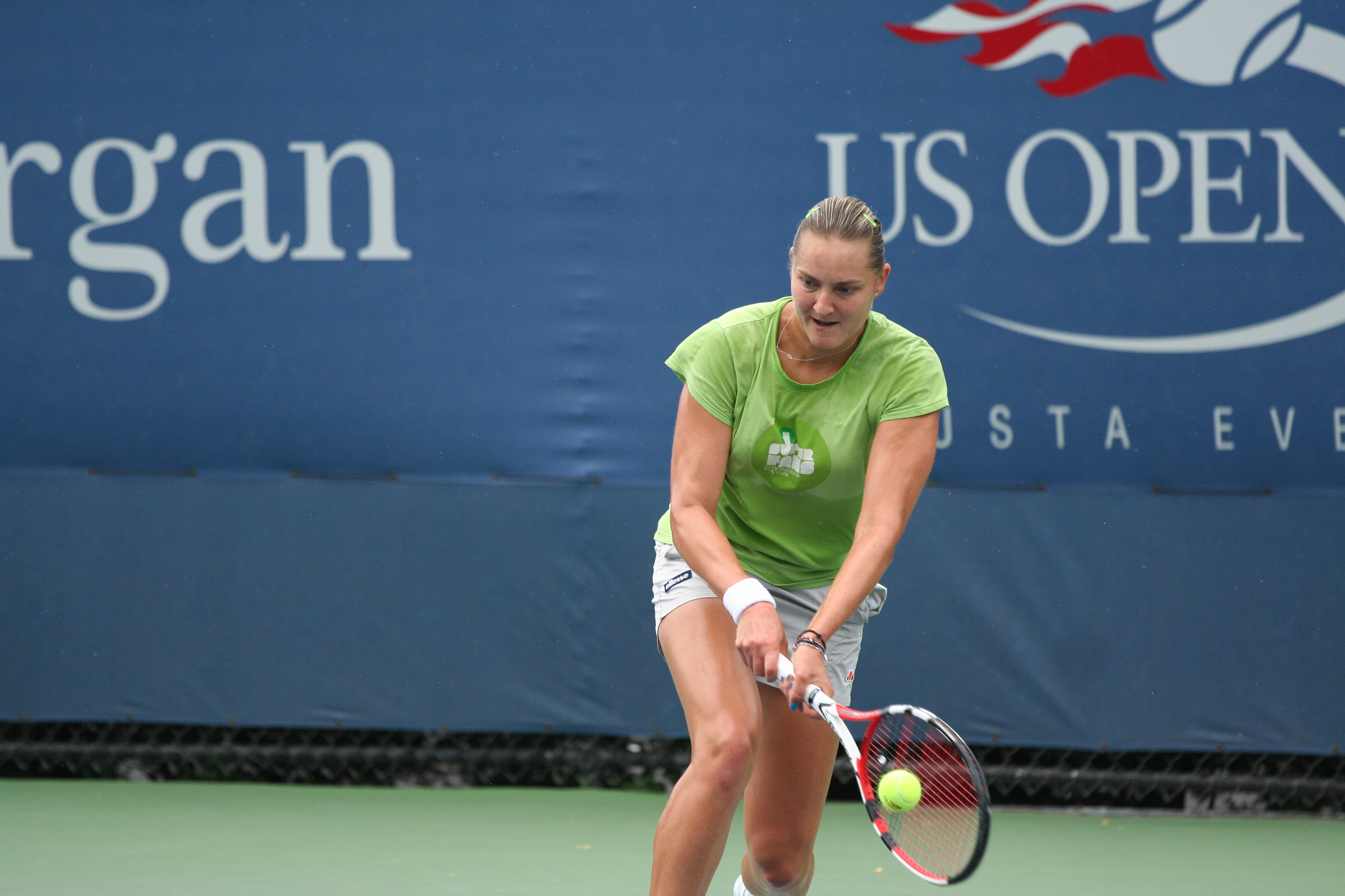 Nadia Petrova at the 2010 US Open